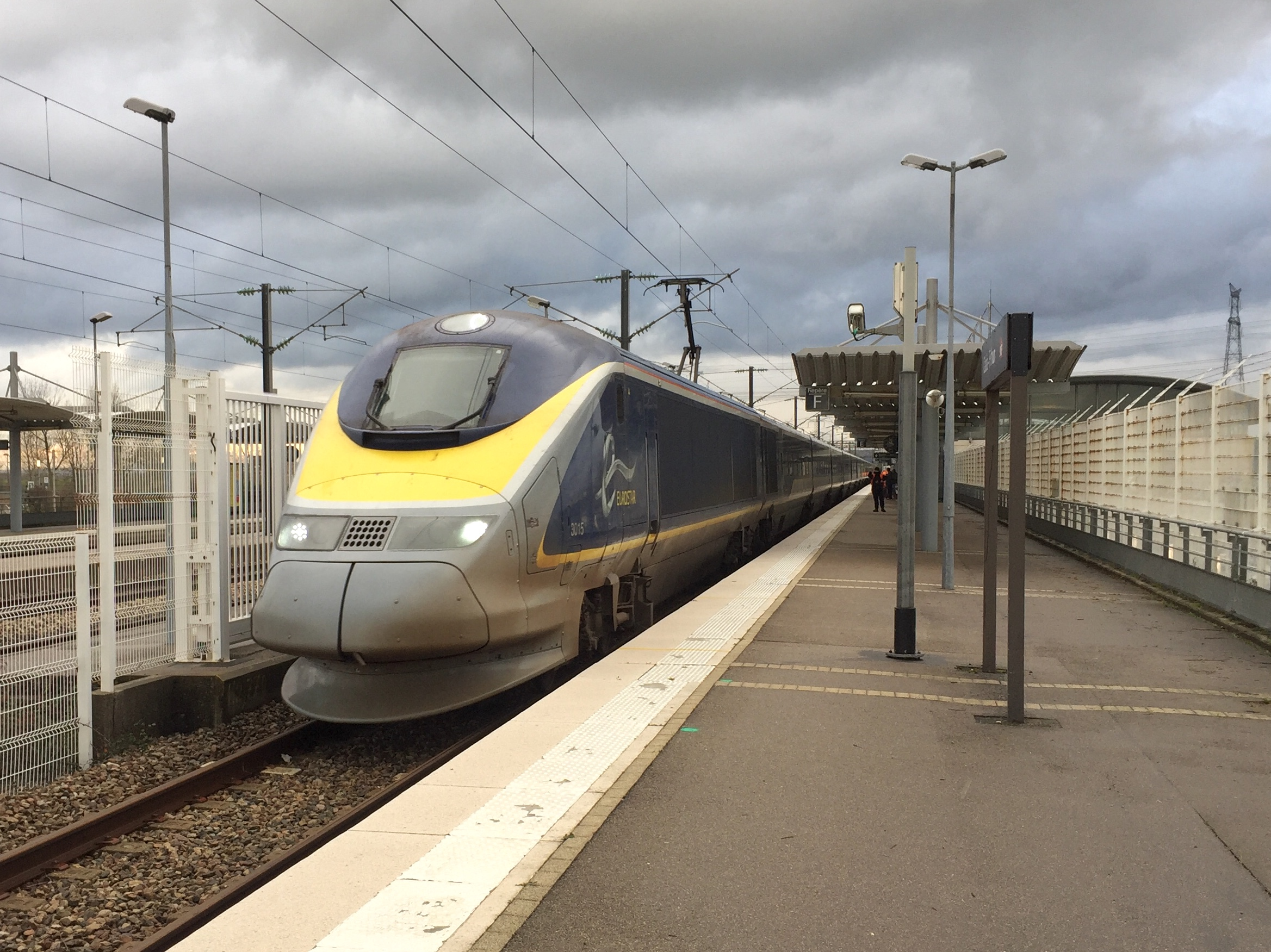 Eurostar 3015 at Calais Frethun, heading north to the UK